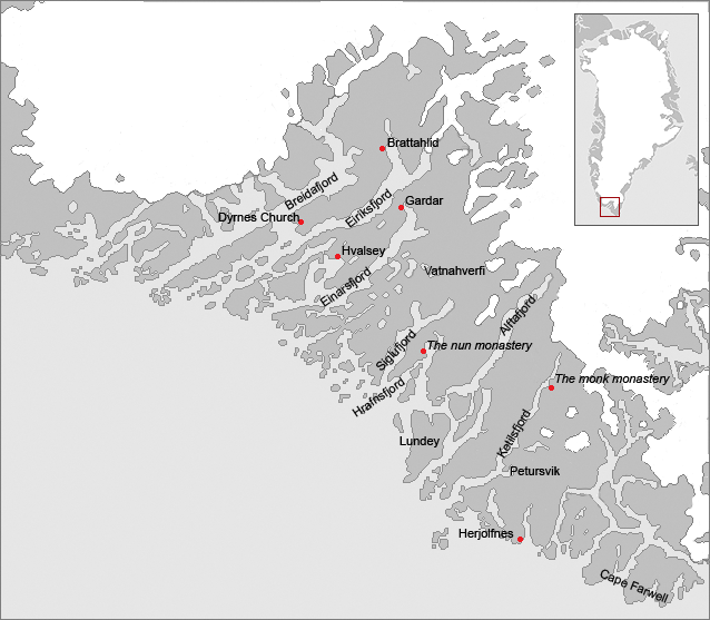 Map of the Eastern settlement of the Norse in medieval Greenland. The area is approximately the modern municipalities of Qaqortoq, Narssaq and Nanortalik. The known major farms and churches are identified on the map as some probable geographical names. The names are the English versions of the Norse names.